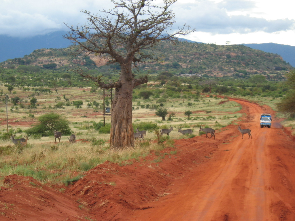 Another landscape from safari in TSAVO East National Park - KenyaAfrican safari route